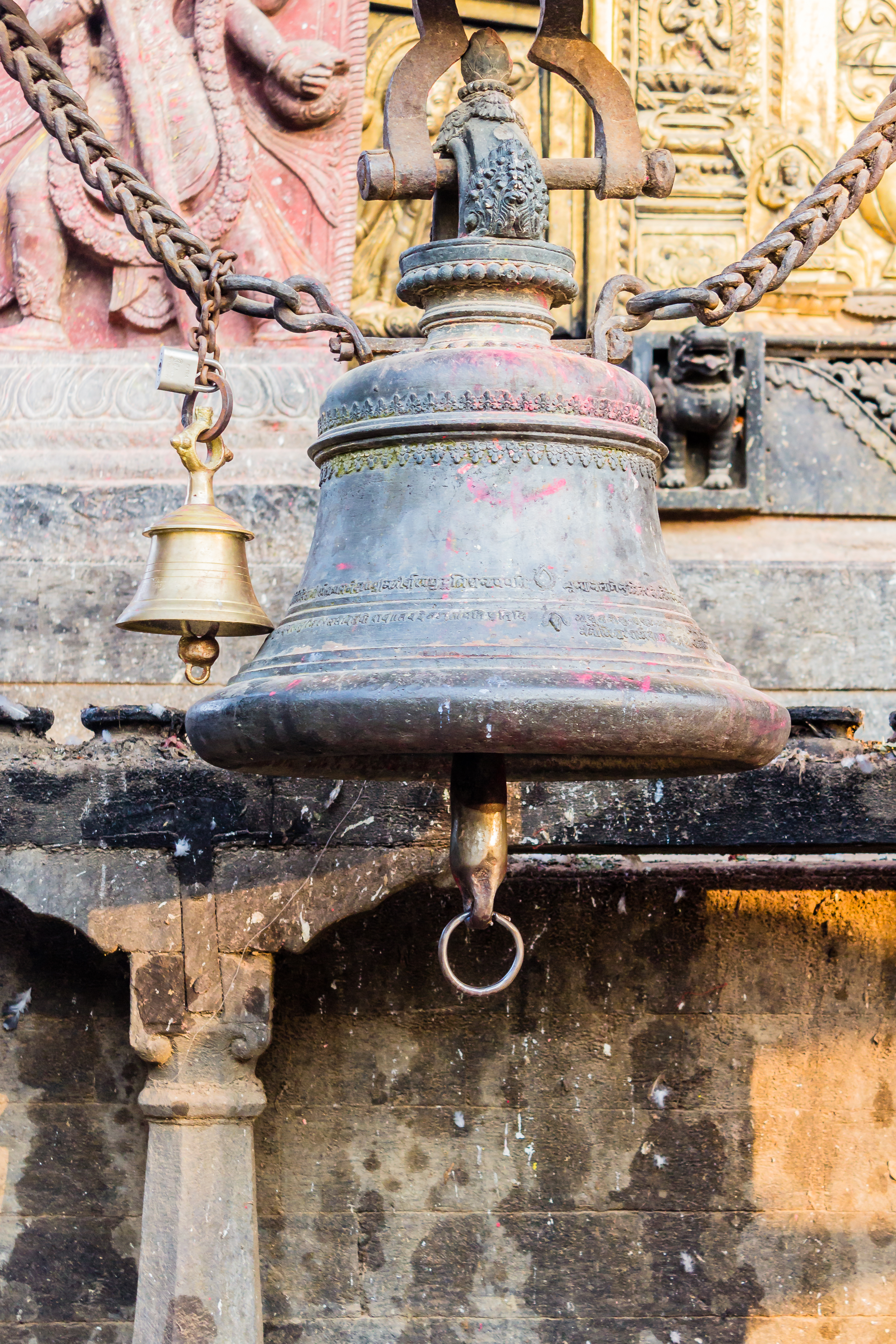 Ghanta (tibetan: drilbu) is the Sanskrit term for a ritual bell used in Hinduistic religious practices. The ringing of the bell produces what is regarded as an auspicious sound. Hindu temples generally have one metal bell hanging at the entrance and devotees ring the bell while entering the temple which is an essential part in preparation of having a darshan.